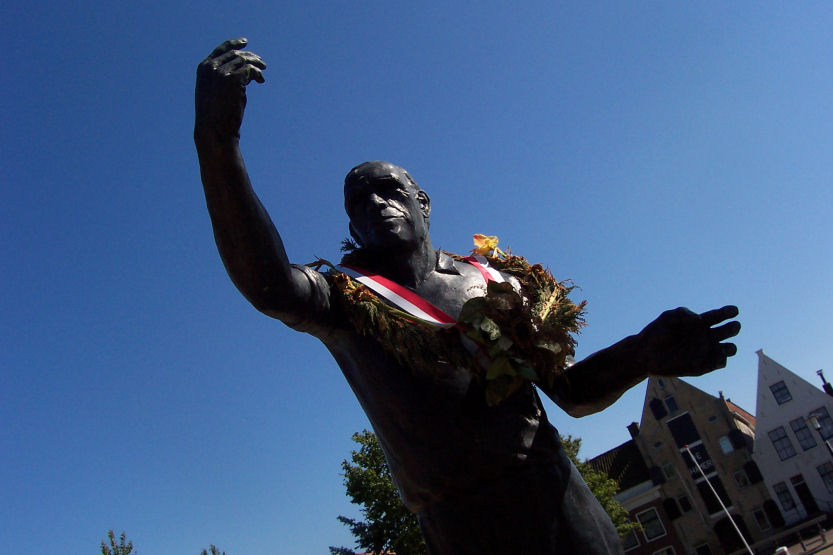 Harlingen - Statue devoted to Hotze Schuil, Frisian handball player